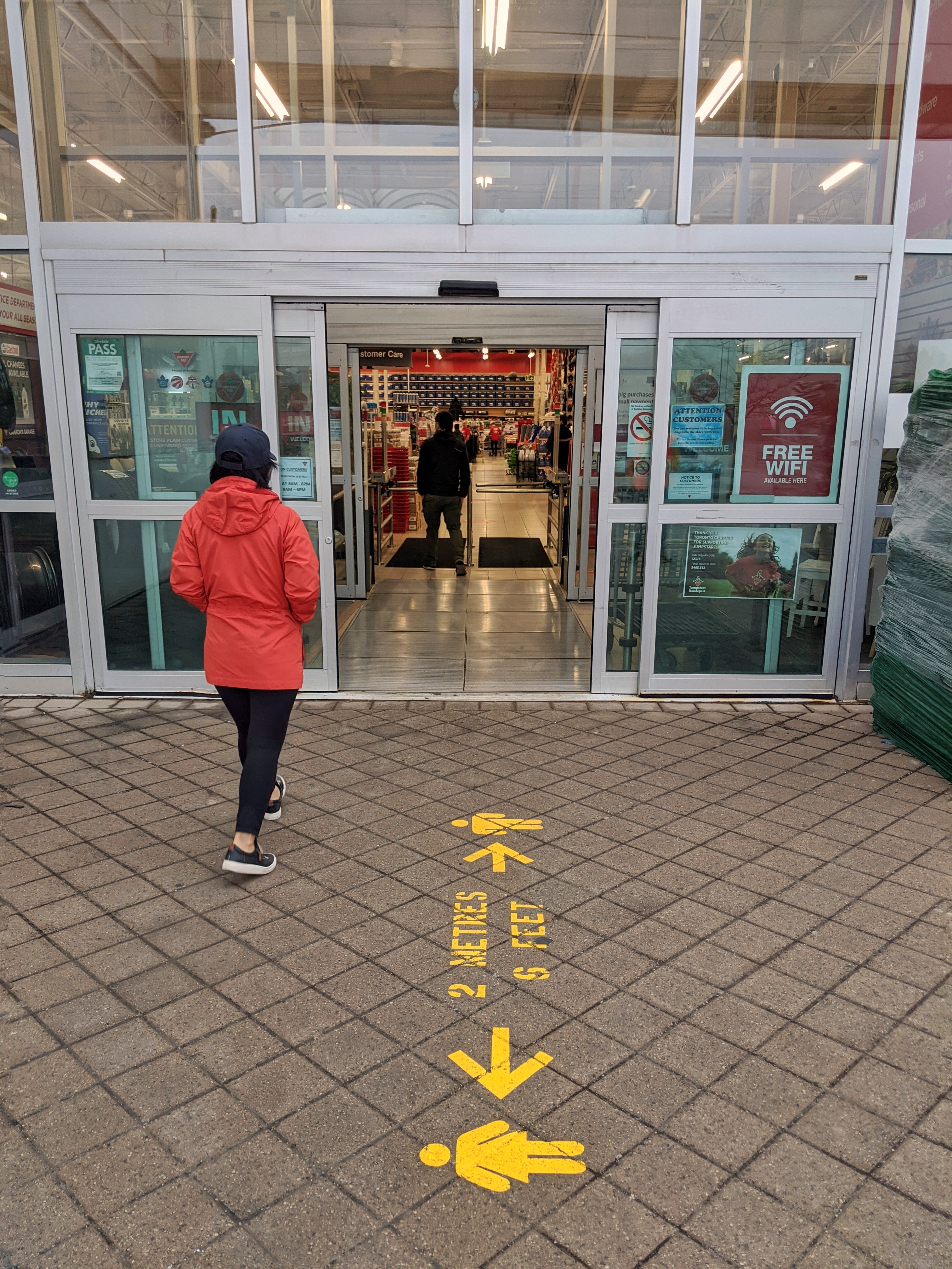 Canadian Tire entrance with social distancing markers